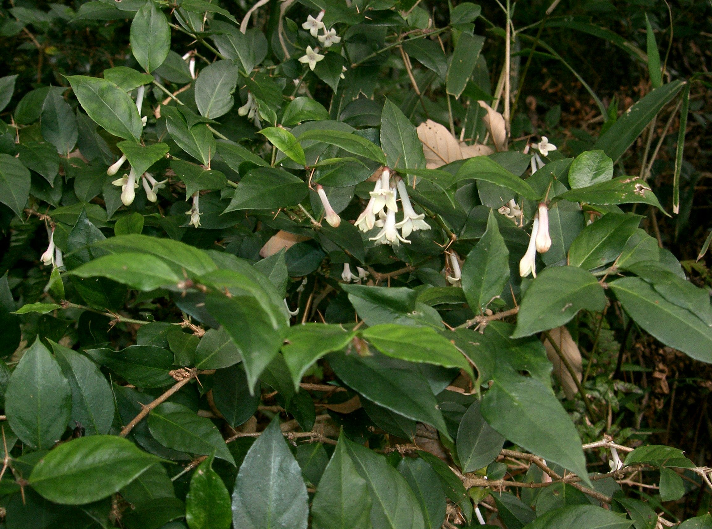 Damnacanthus indicus subsp. major